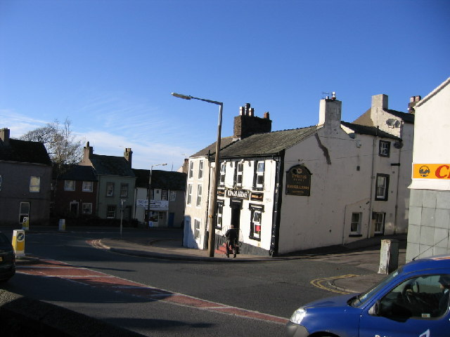 Hensingham Square Whitehaven. The public house is the Kings Arms.